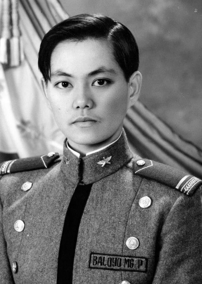 Profile picture of Cpt Mary Grace P Baloyo PAF while a cadet at the Philippine Air Force Flying School.